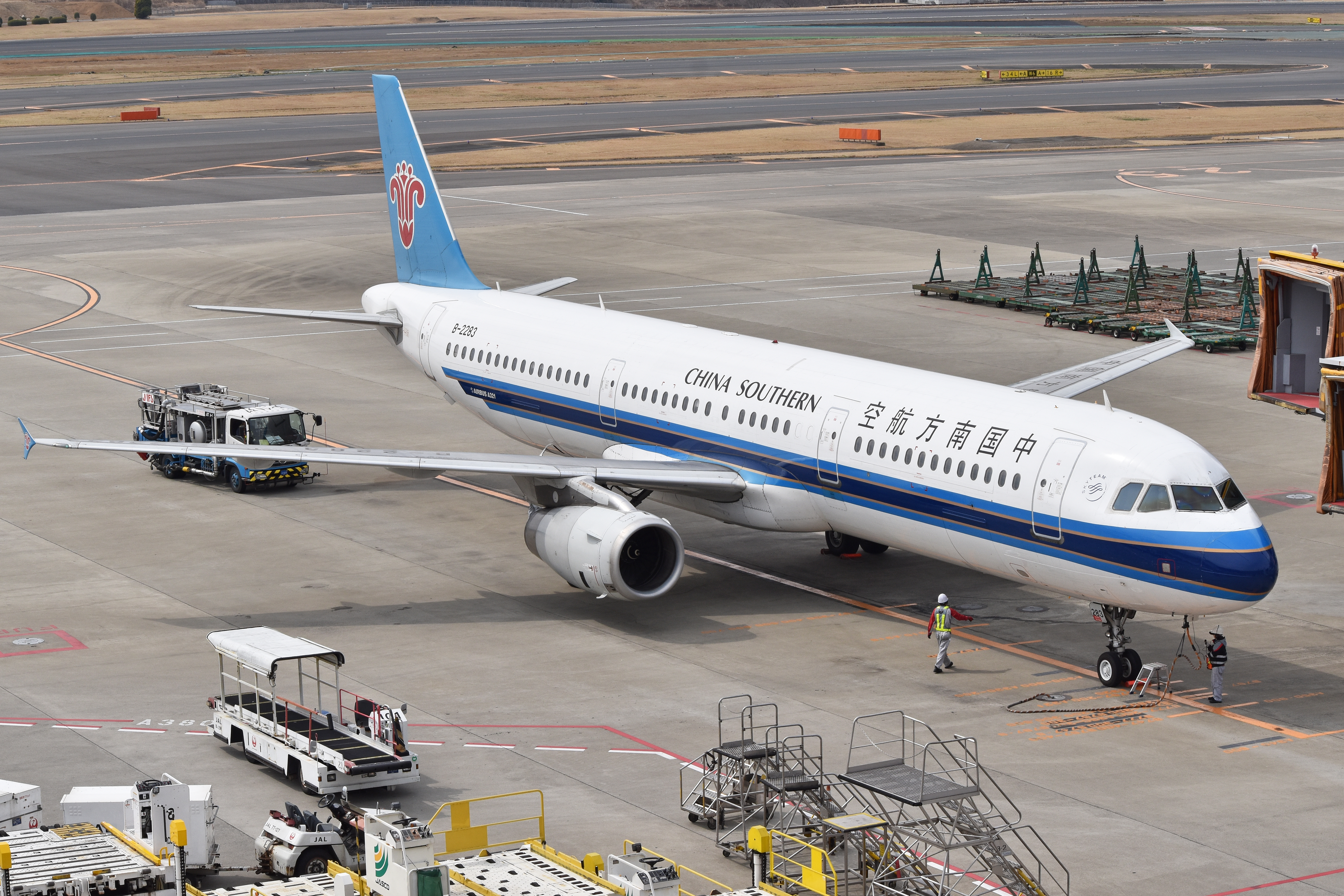 c/n 1788 Built 2002 Taxiing in after arriving on flight CZ627 / CSN627 from Shenyang Seen from Terminal 1 viewing terrace. Narita International Airport Tokyo, Japan 16th March 2019